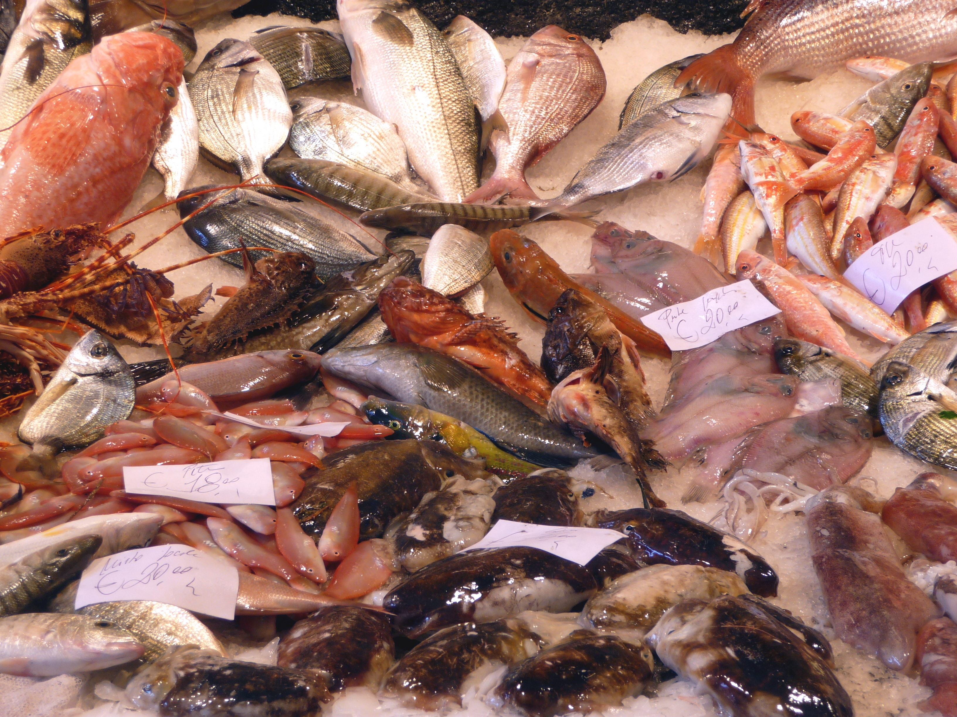 Seafood on the market Pescheria, Catania, Sicily, Italy